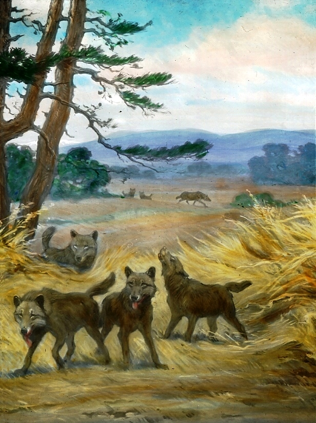 Dire wolf (Canis dirus) from Rancho La Brea, Calif.; detail of a mural